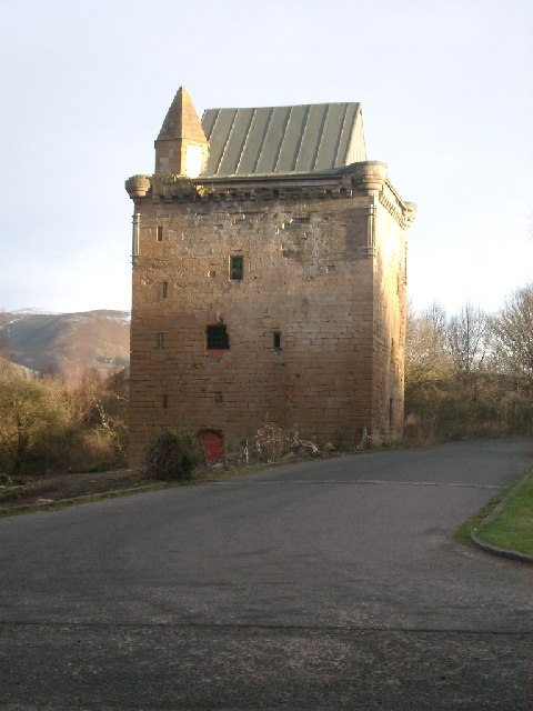 Sauchie Tower. between Fishcross and Alva. Ochils in the background